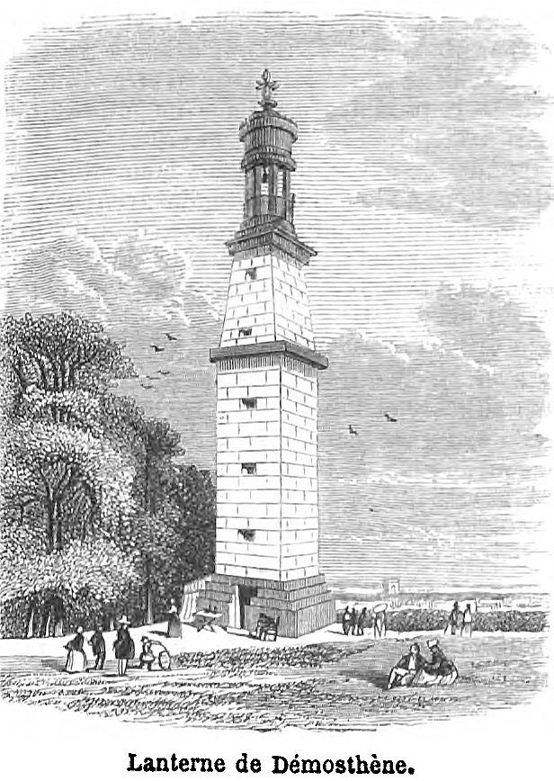 The Lantern of Démosthène was built for an exposition in the Louvre in 1801. After the exposition it was transported to Saint-Cloud, where it was lit, when Napoleon was there. It was destroyed in 1870 in the Franco-Prussian War by the Prussians.